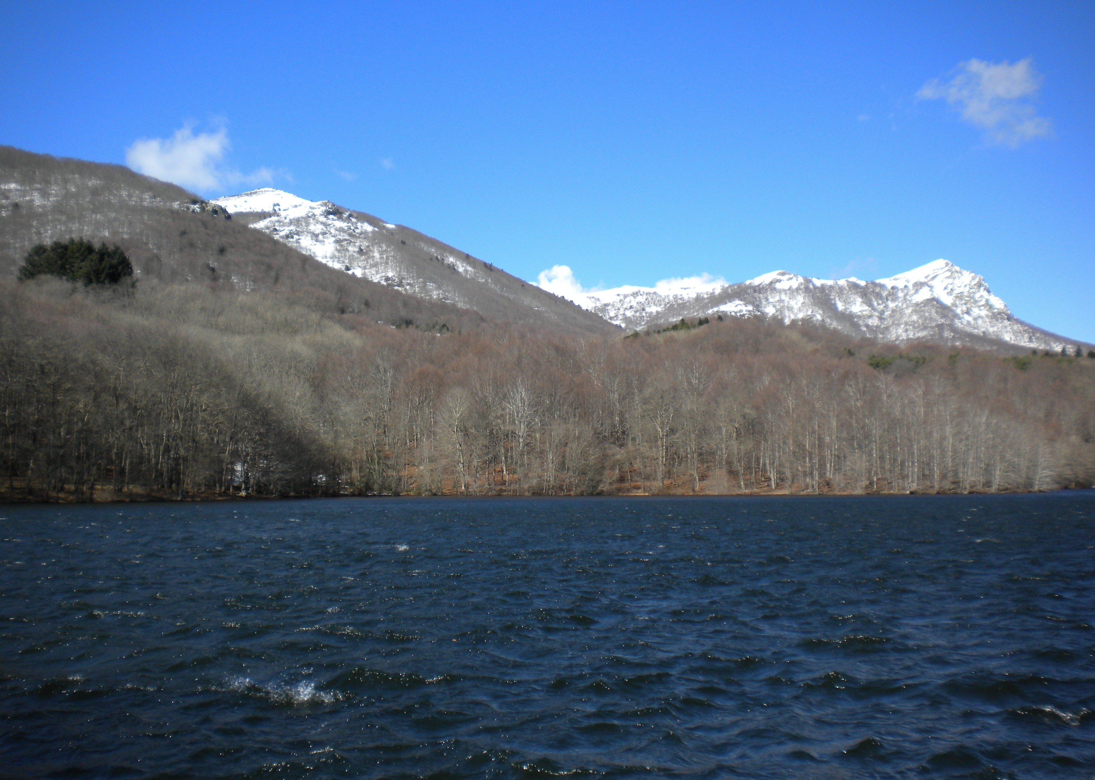 Santa Fe reservoir in the Montseny mountains.